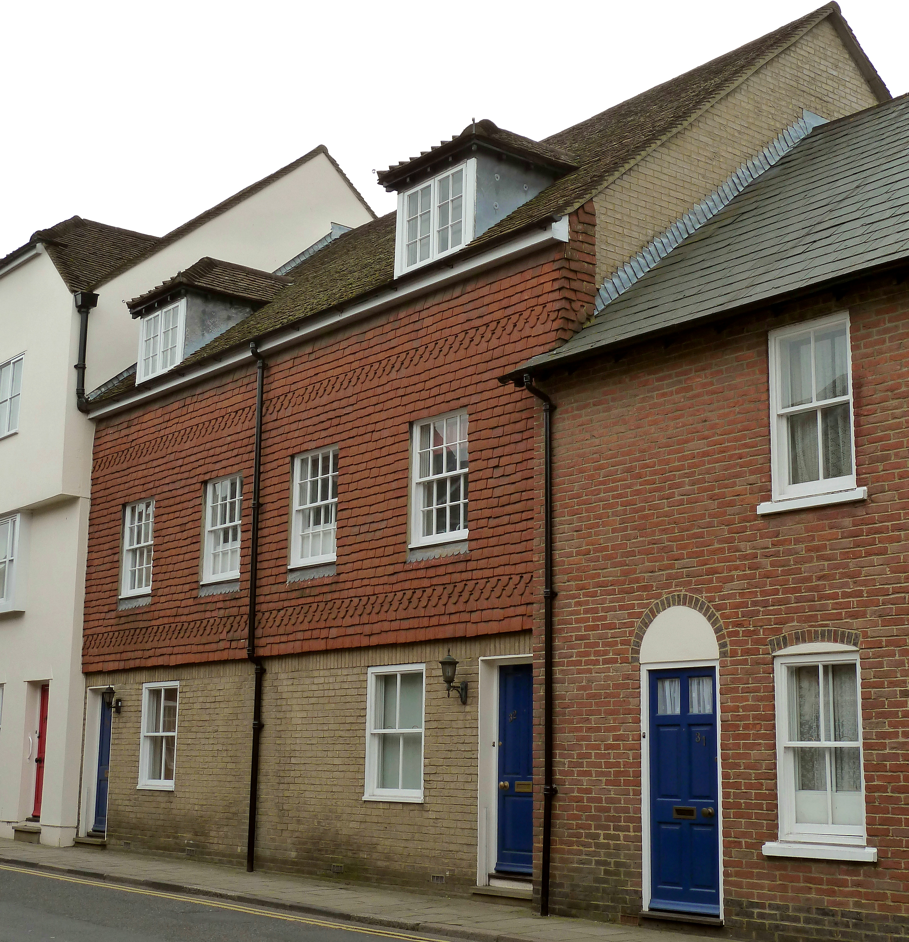 St Radigund Street in Canterbury, Kent, England. Number 32 is the centre building. George and Cecilia Benge, maternal grandparents of Lydia Cecilia Hill (1913-1940), were living there in 1901. George Benge was a retired dairyman from Hastings. Lydia Cecilia Hill was a favourite of Sultan Ibrahim of Johore.